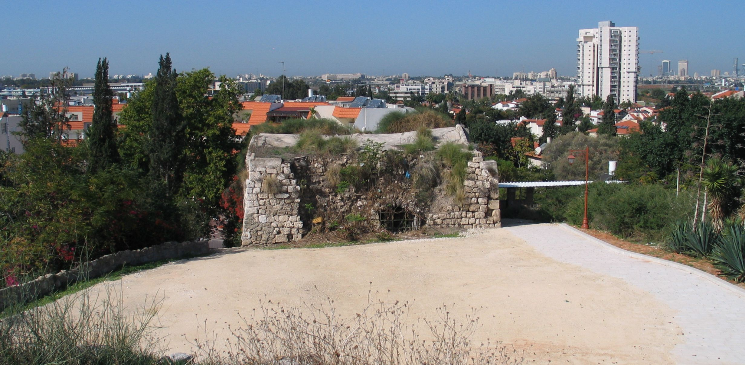 HaMetsuda garden, Azor, Israel.